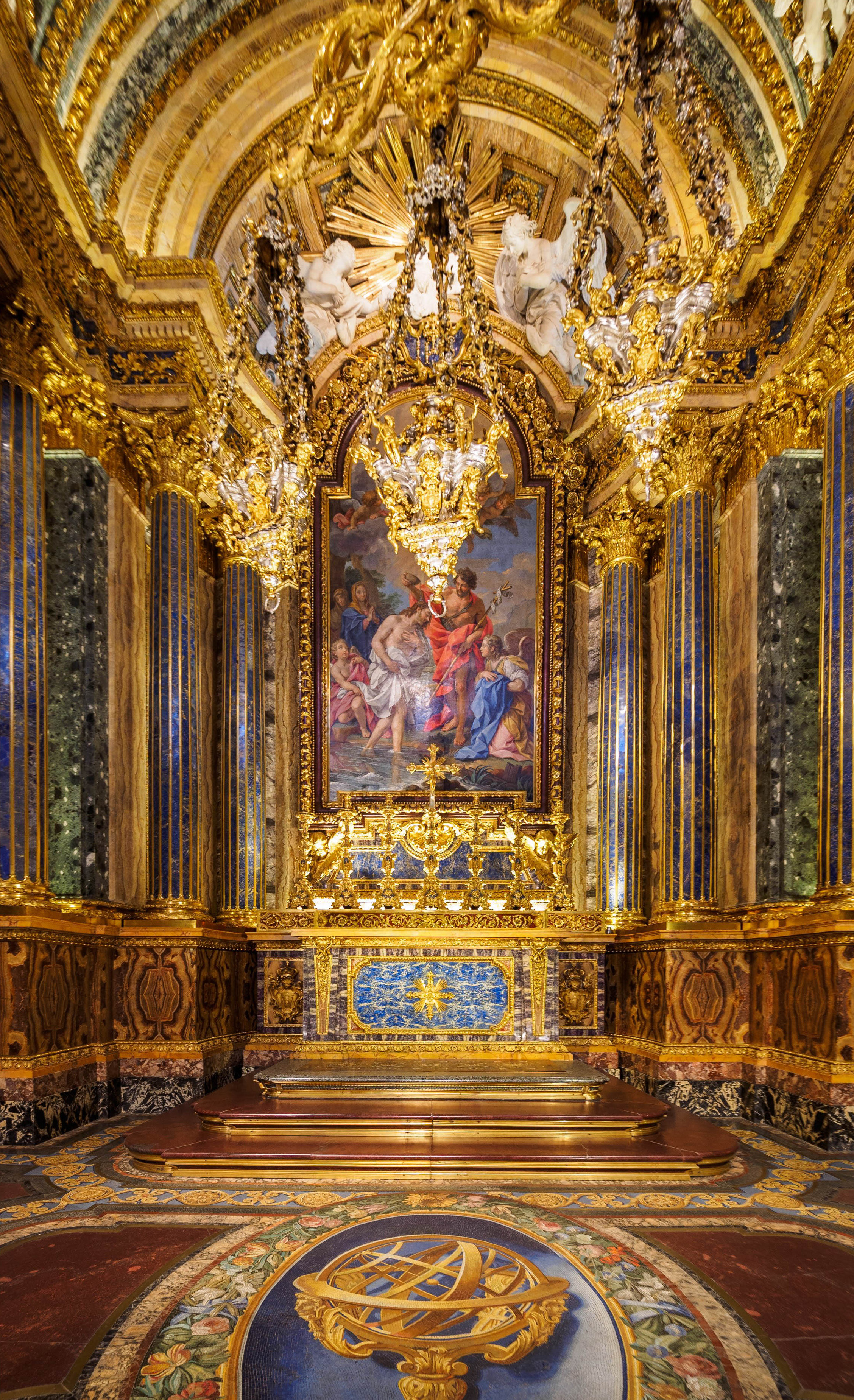 Andreas Manessinger, , Creative Commons BY-SA